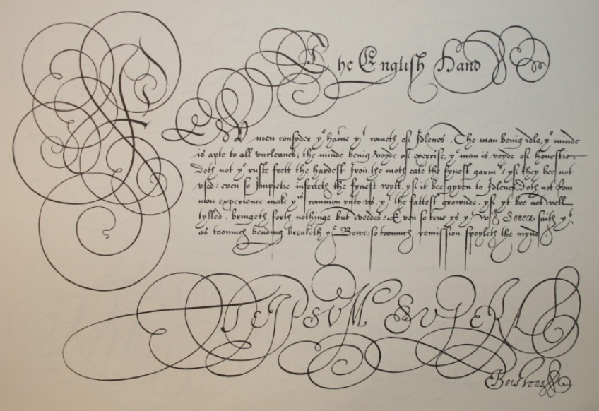 Calligraphy example